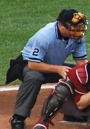 MLB umpire Jerry Crawford at Nationals Park - August 8, 2009.